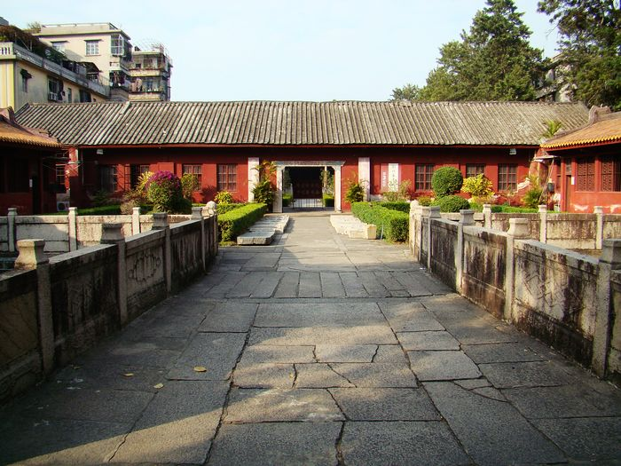 Confucianism school of Haiyang County (currently Chaozhou City)